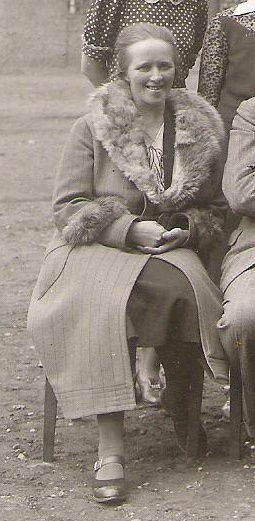 Nini (Adeline) Dombrowski, co-editor, later editor of the german songbook "Der Spielmann", photographed in 1944.